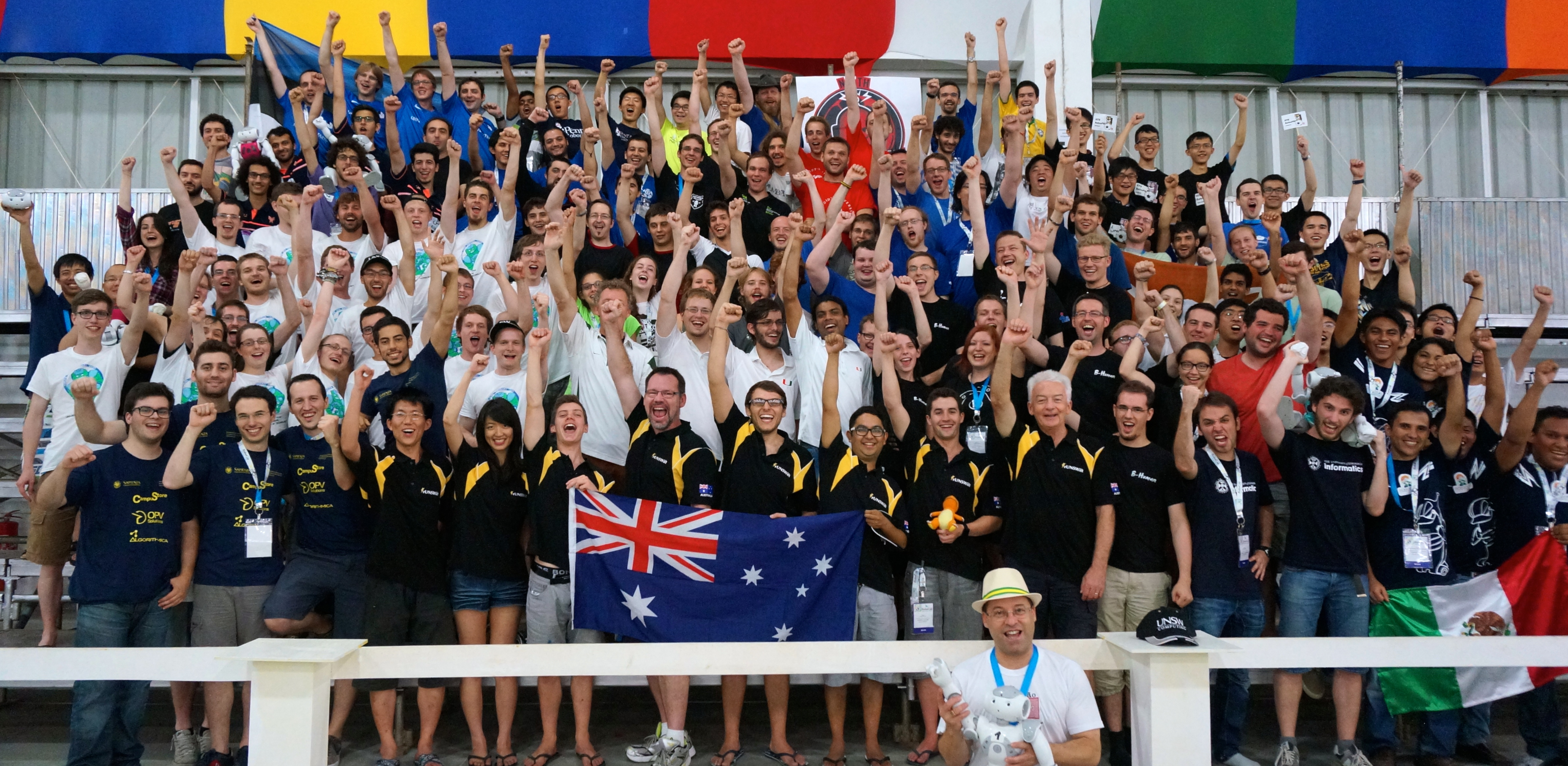 A photo of all the teams in the SPL at RoboCup 2014